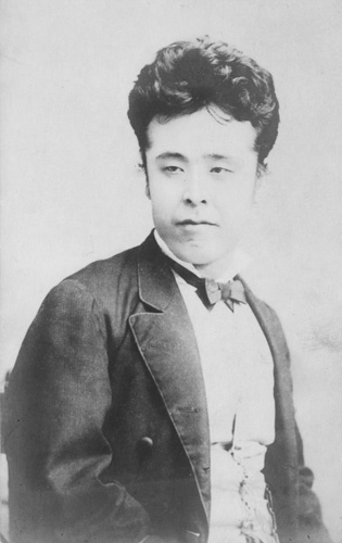 Shiro Isobe, 1875. Shiro Isobe (1851-1923) was a Japanese politician and lawyer.